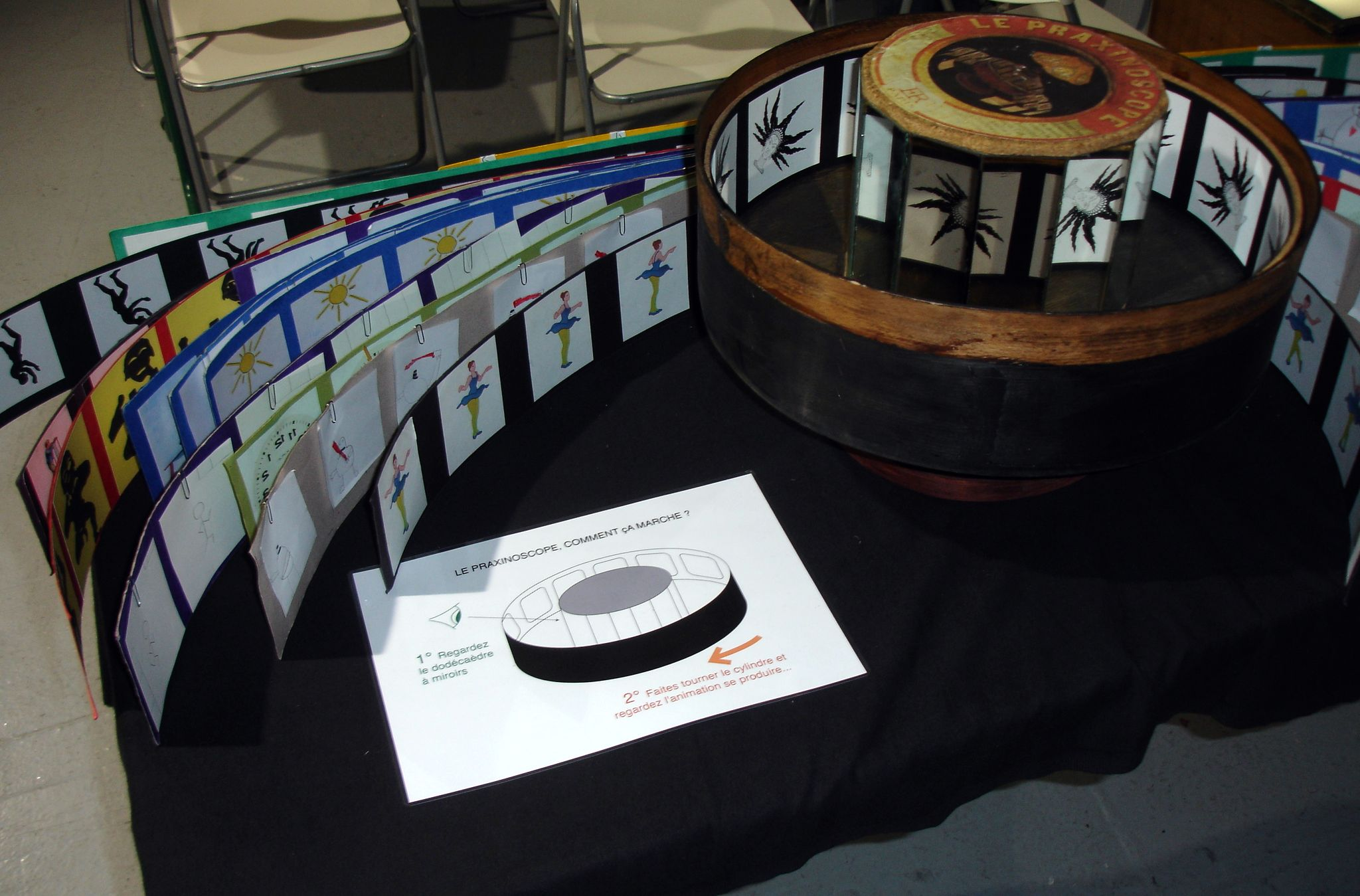 Praxinoscope with a removable backing at the Festival of Animation 2010 in Lille.